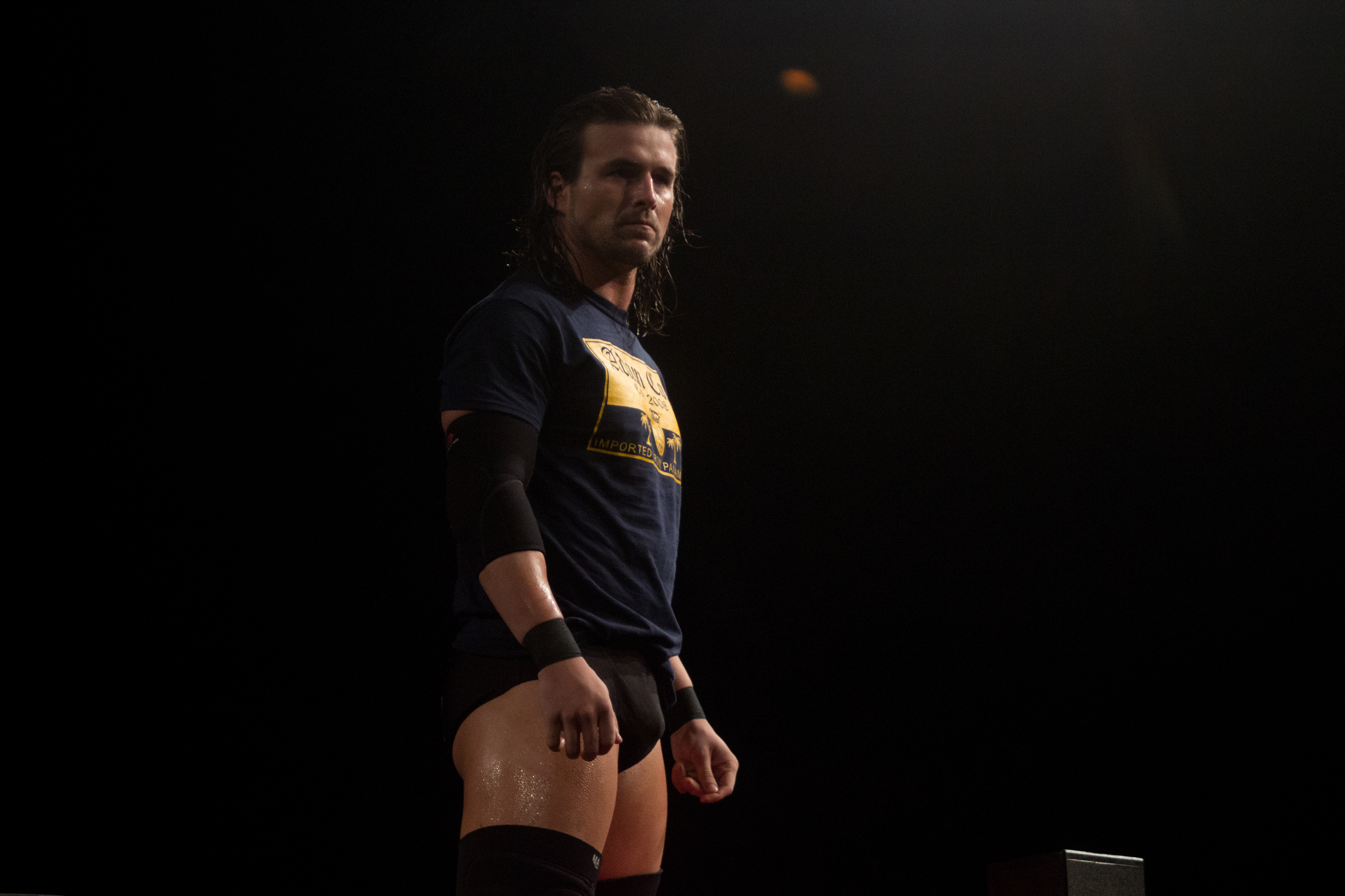 Adam Cole posing on the turnbuckles prior to a match at a RIng of Honor show on September 7, 2013.